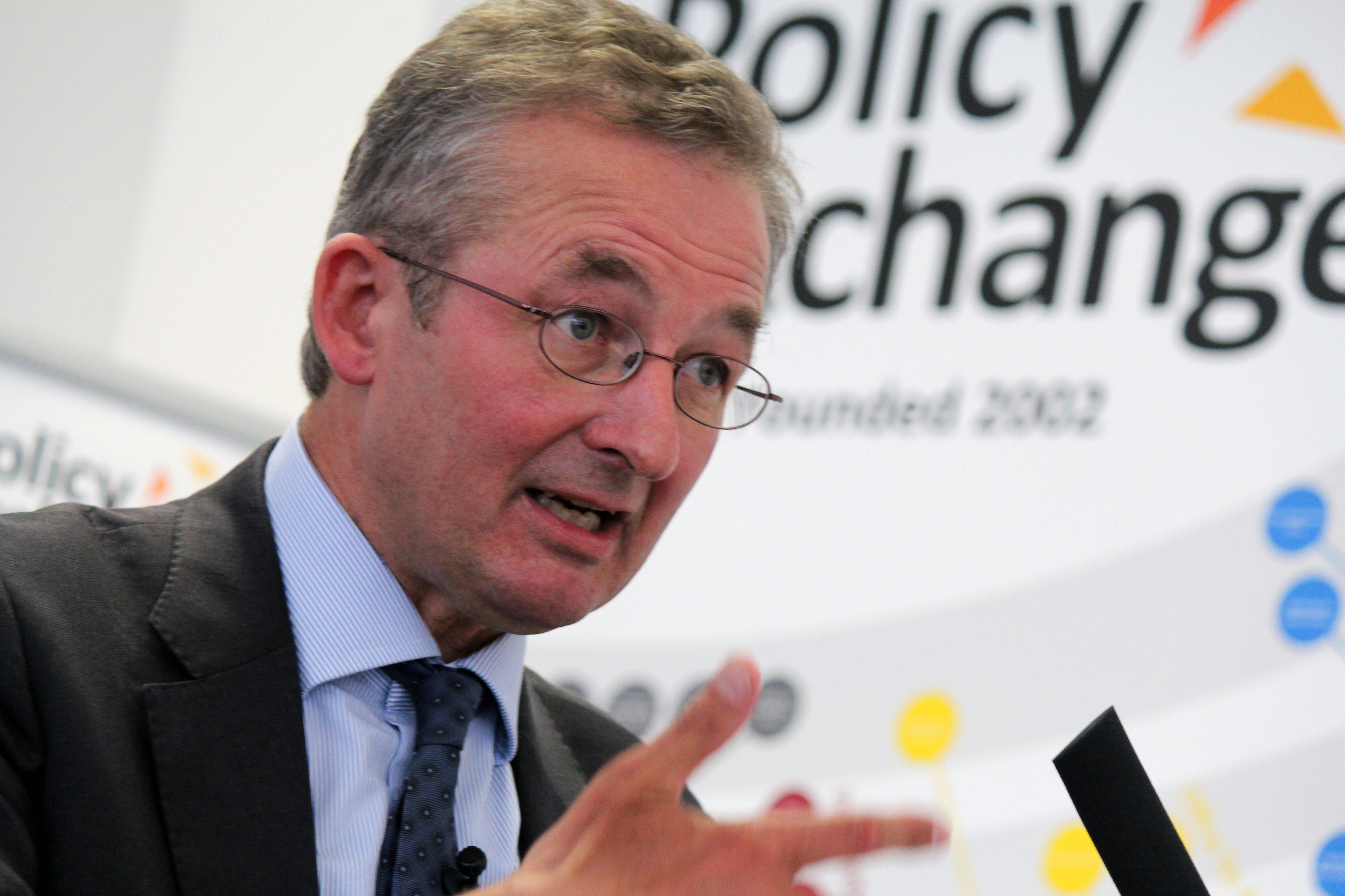 Dieter Helm, chair of UK Natural Capital Committee, 2012-2015; then reappointed 2015 to end of government's term in office.